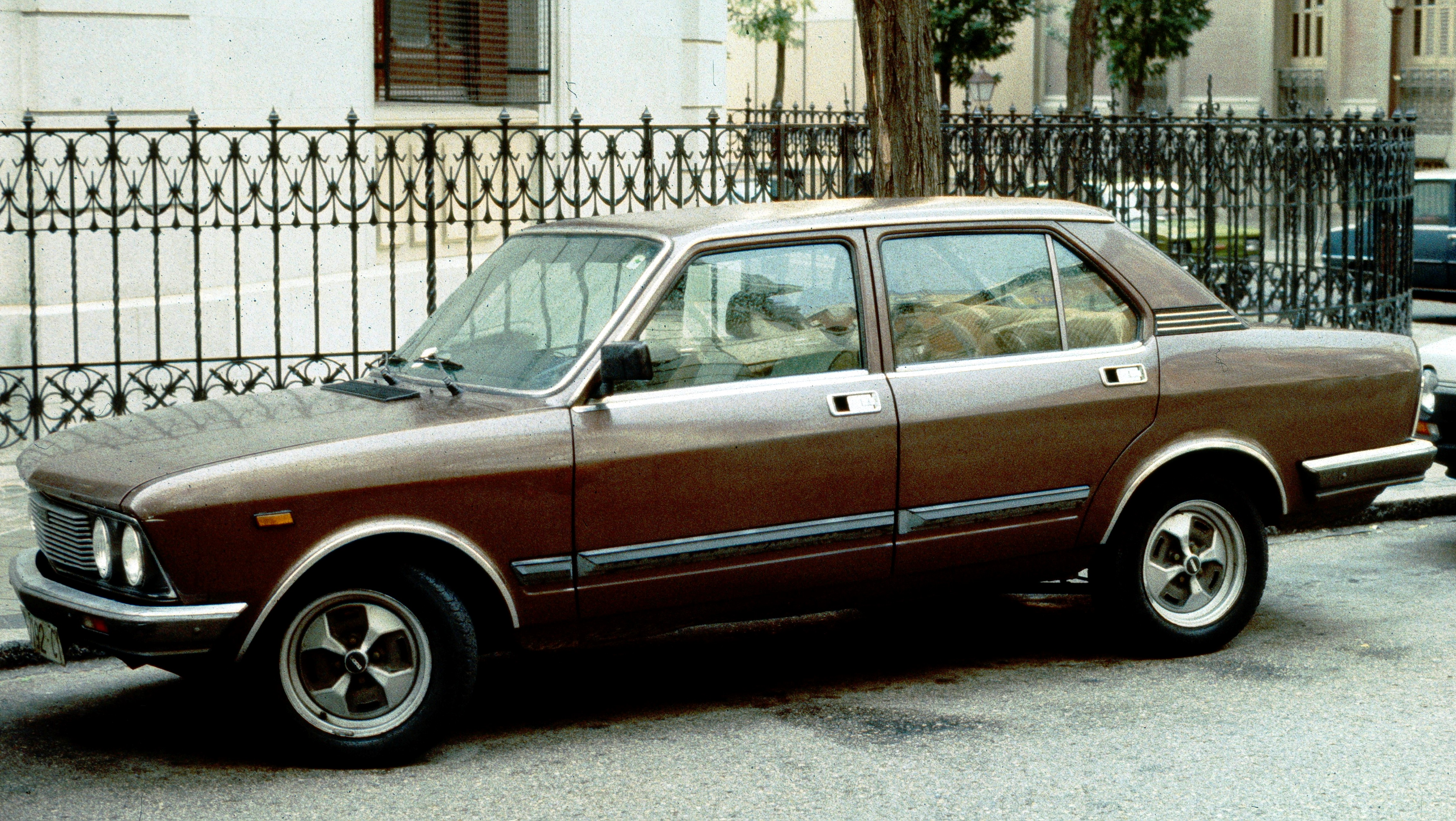 Seat 132 in Madrid